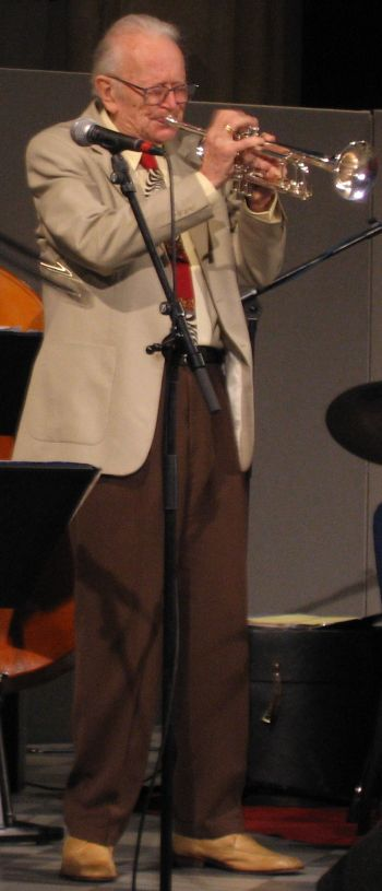 Humphrey Lyttelton on his trumpet at the Landmark Arts Centre, Ferry Road, Teddington, Middx. TW11 9NN on 2006 April 22 at 21·49. Photo taken by Mark Barker.